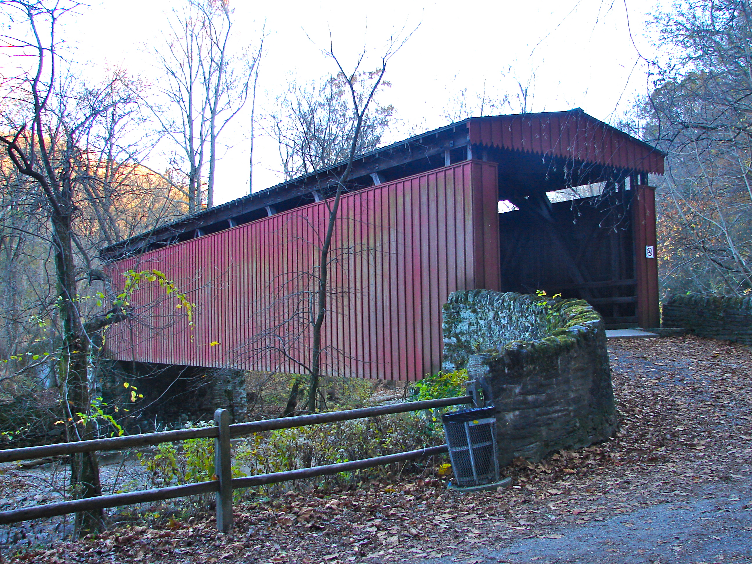 Thomas Mill Covered Bridge on the NRHP since December 1, 1980. On Thomas Mill Road (or footpath) across Wissahickon Creek connecting to Forbidden Drive in Fairmount Park, Philadelphia. This is the only surviving covered bridge in a major city in the US. It's an odd bridge in that there is an extensive stone bridge leading up to it from the east side. Also in the Wissahickon Gorge there is something of a microclimate. Lots of foliage and difficult light makes it difficult to photograph. There is a good black and white photo from Jack Boucher HABS on Commons, but photogs who want to get a good picture of this marvel will need to dedicate a lot of time on it.